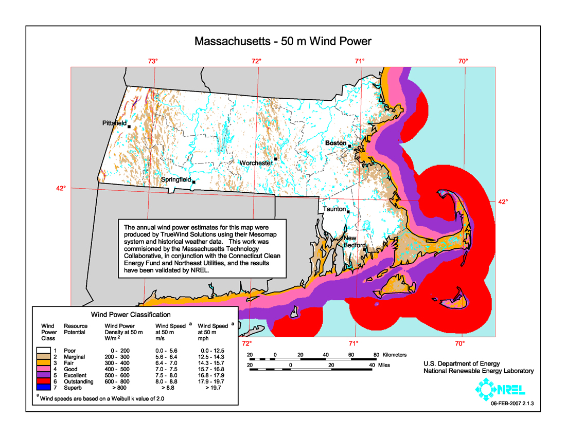 Average annual wind power distribution for Massachusetts, 50m height above ground, also showing location of existing electrical transmission lines